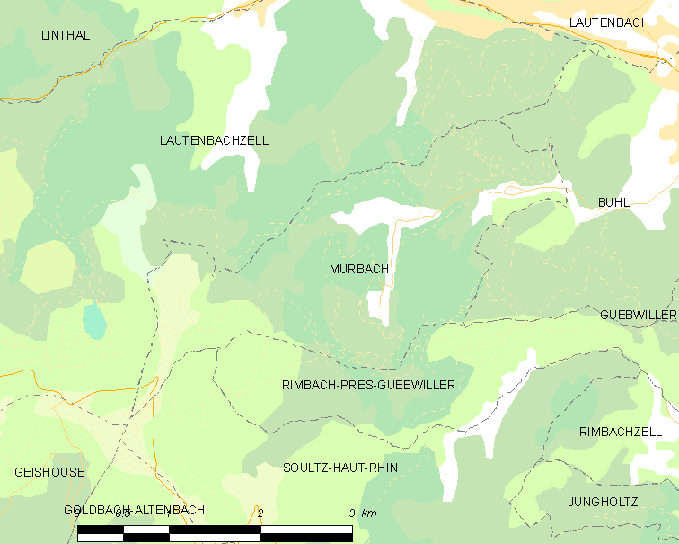 Map of French municipality